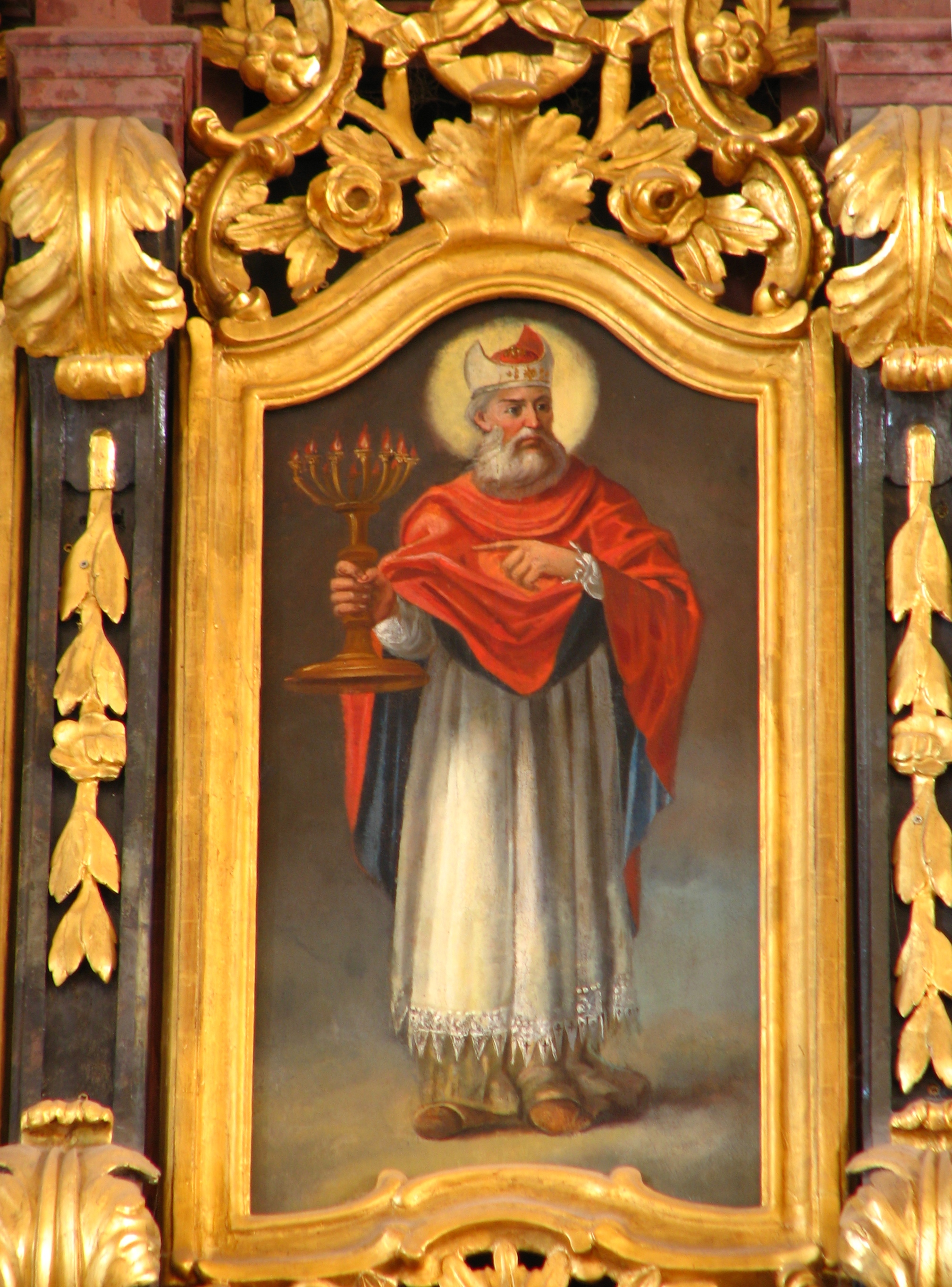 The picture is a Greek Catholic icon depicting the prophet Zechariah as a high priest. The icon was painted in the end of the 18th century as part of the iconostasis of the Greek Catholic Cathedral of Hajdúdorog, Hungary. Zechariah's icon is placed on the third tier of the iconostasis, the so called Prophets tier. This icon is the second painting from the left.